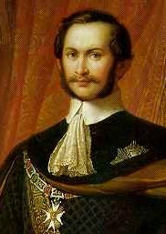 Maximilian II. (1811-1864), king of Bavaria